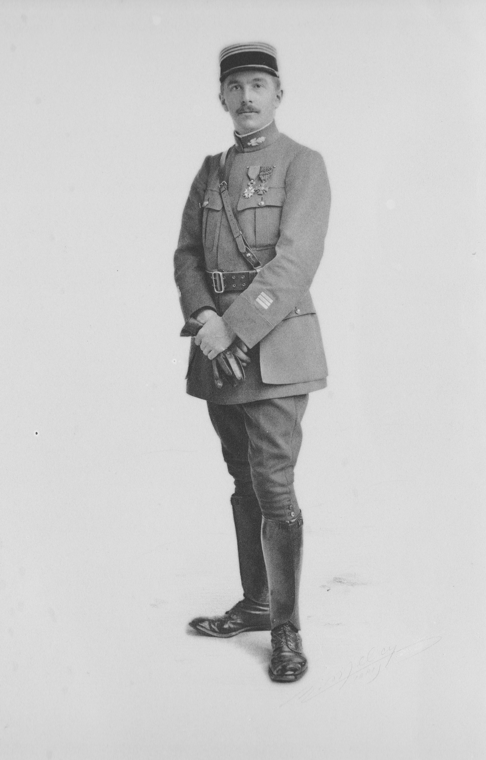 Personal archives